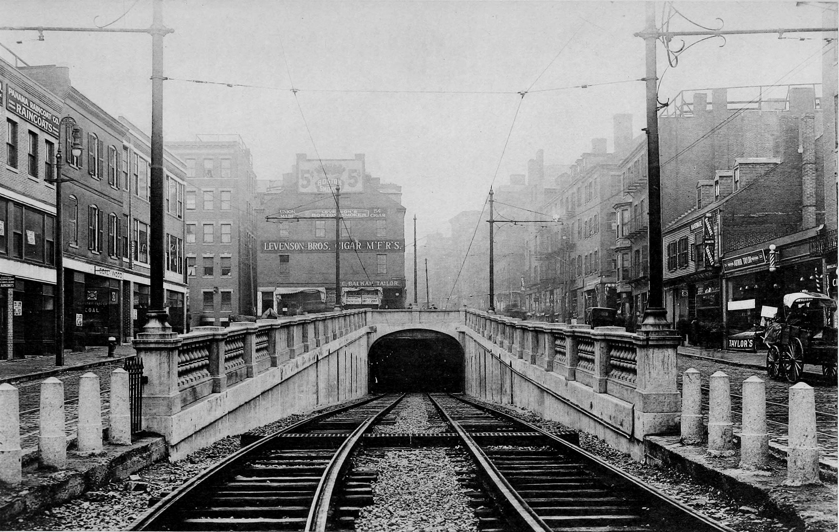 The completed Joy Street incline around 1915